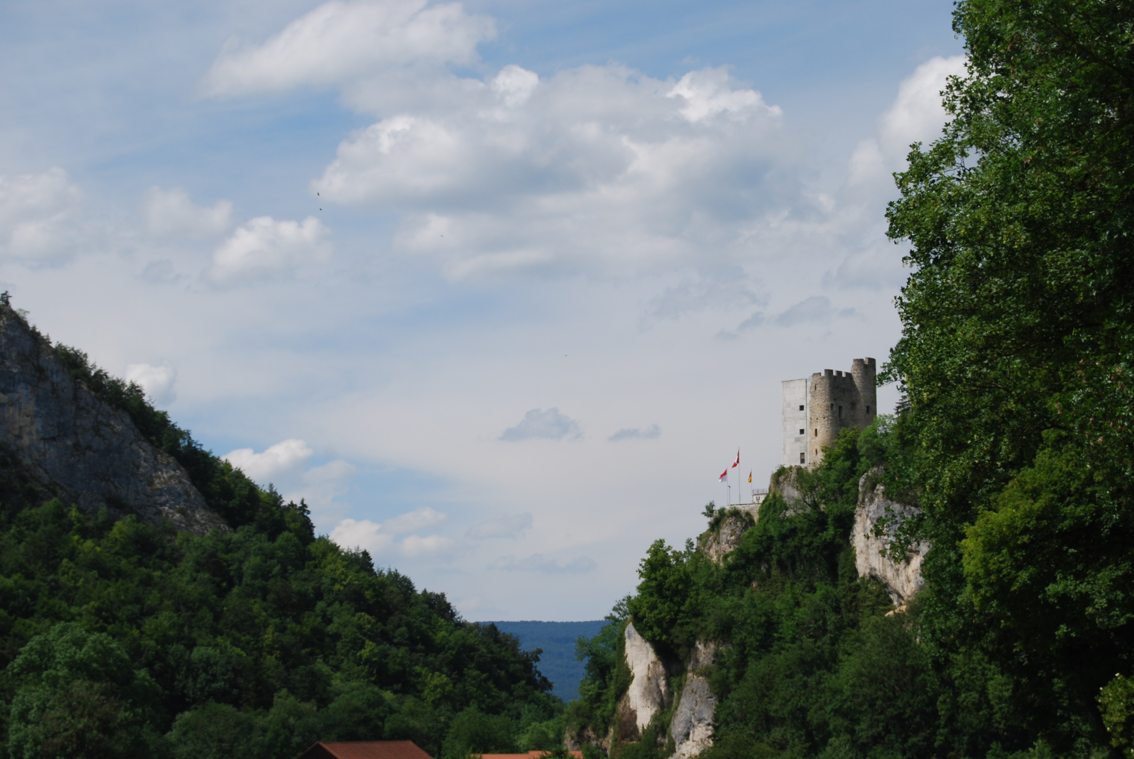 Castle New Thierstein at Büsserach, canton of Solothurn, Switzerland